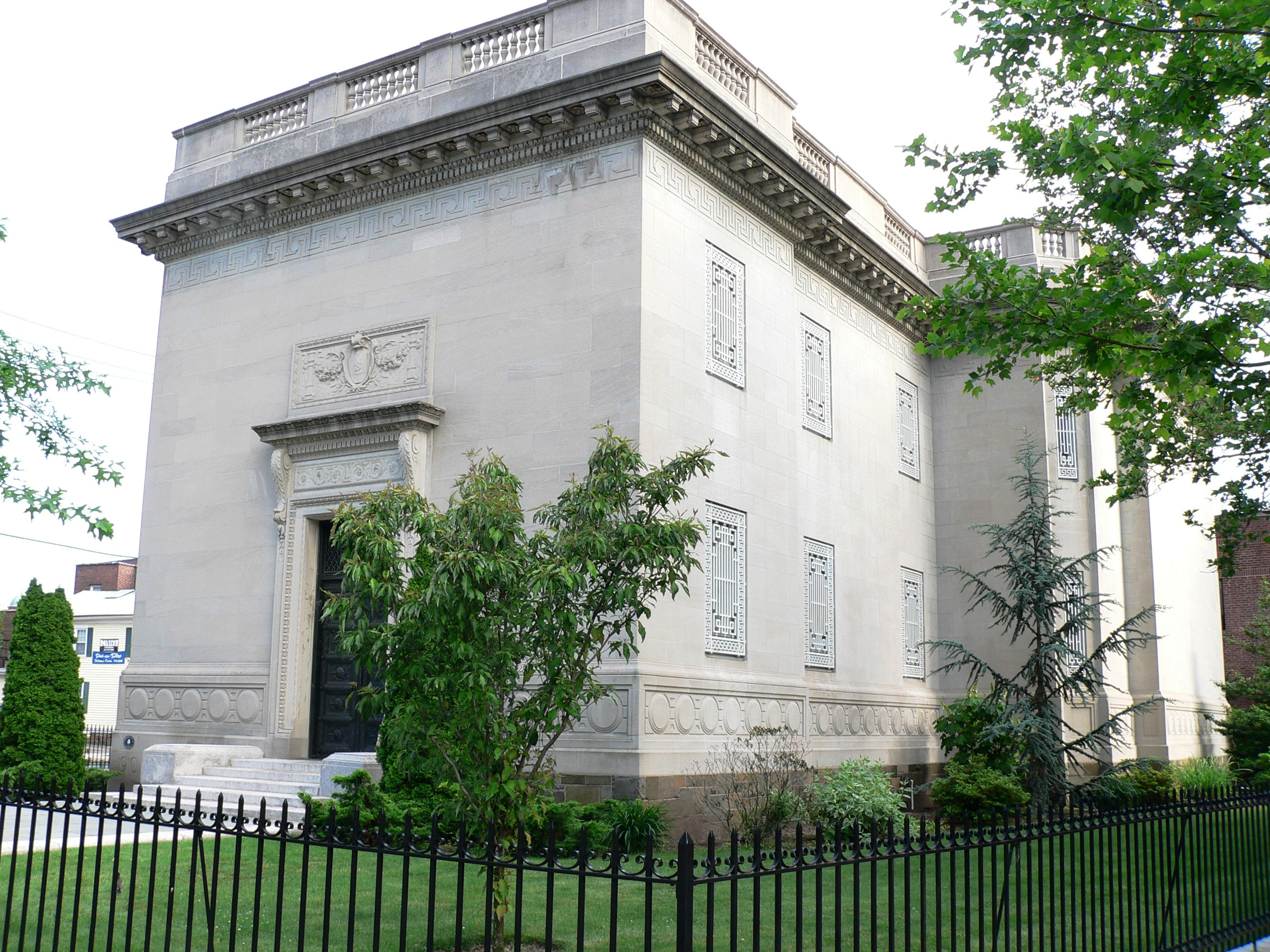 I took this photo of the Yale Berzelius secret society building in June 2007.